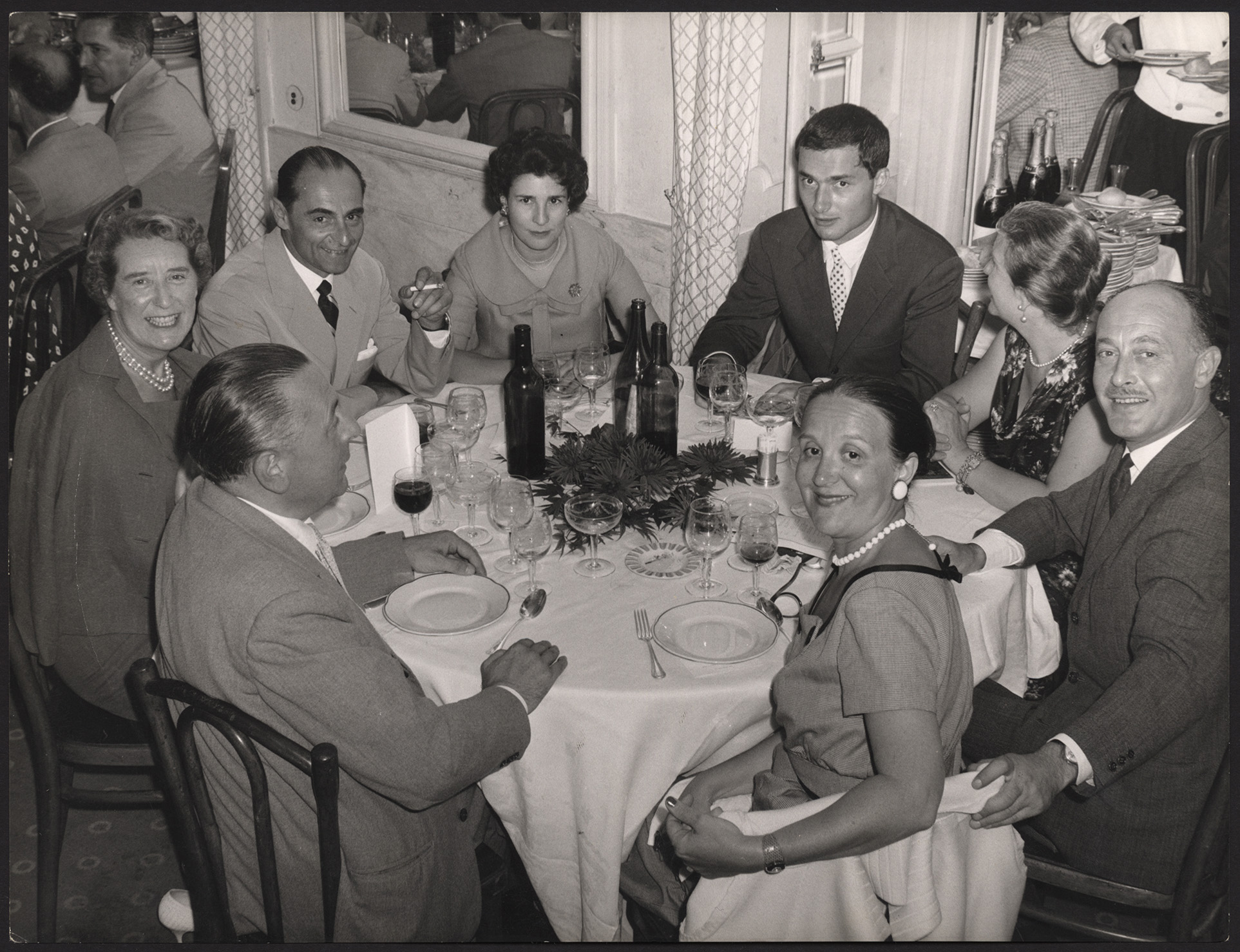 Portrait of Winifred Hasker de Beaurepaire, Franco Colombo, Elena Vitale, Nanni Ricordi, Albertina Bai, Hervè Dugardin, Elvira Colombo, Luigi Bai. Photo by Publifoto, Stresa, 1958.